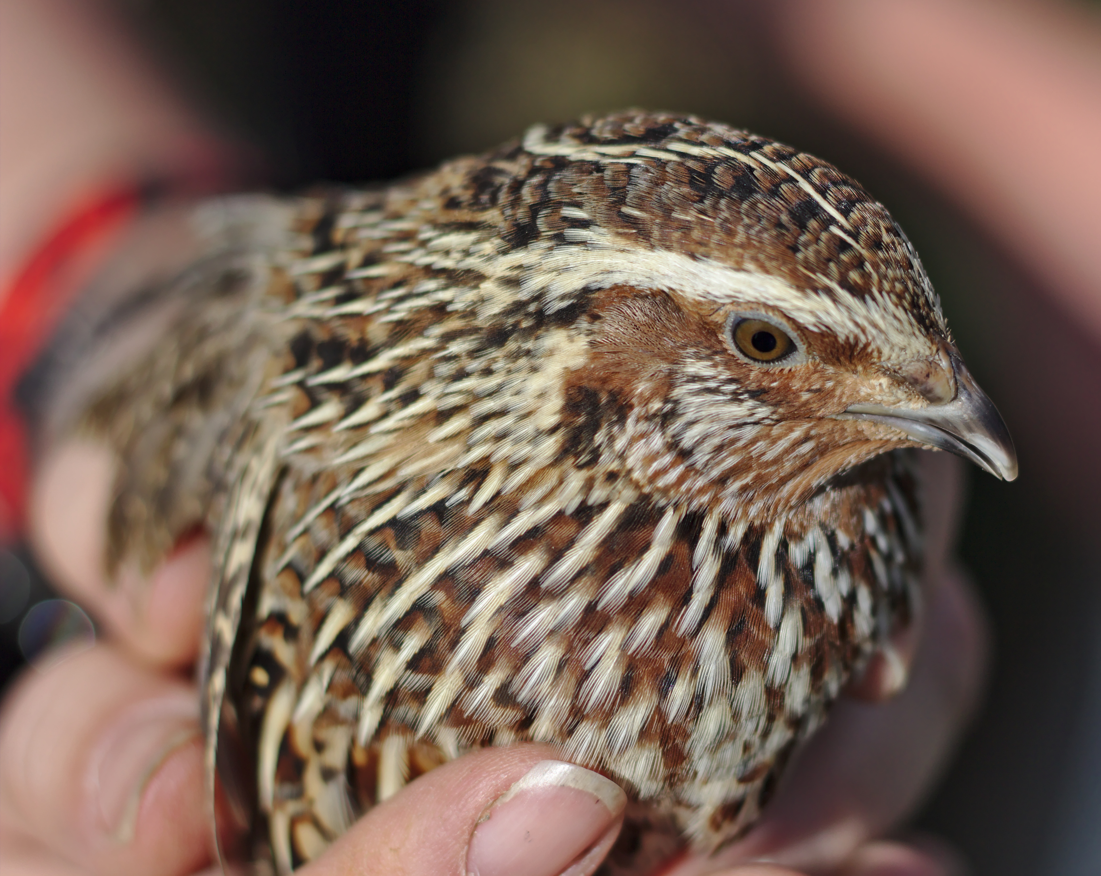 Japanese quail (Coturnix japonica) in hands, Canberra Australia. Identified using this image: [1].